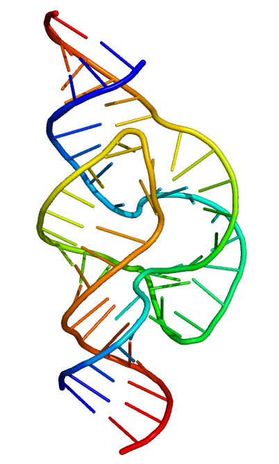 Full-Length Hammerhead Ribozyme color-coded so that the 5'-end of each RNA strand is blue and the 3'-end is red. The individual nucleotides are represented as toothpicks, and the phosphodiester backbone as a narrow tube. From Protein Data Bank ID 2GOZ.